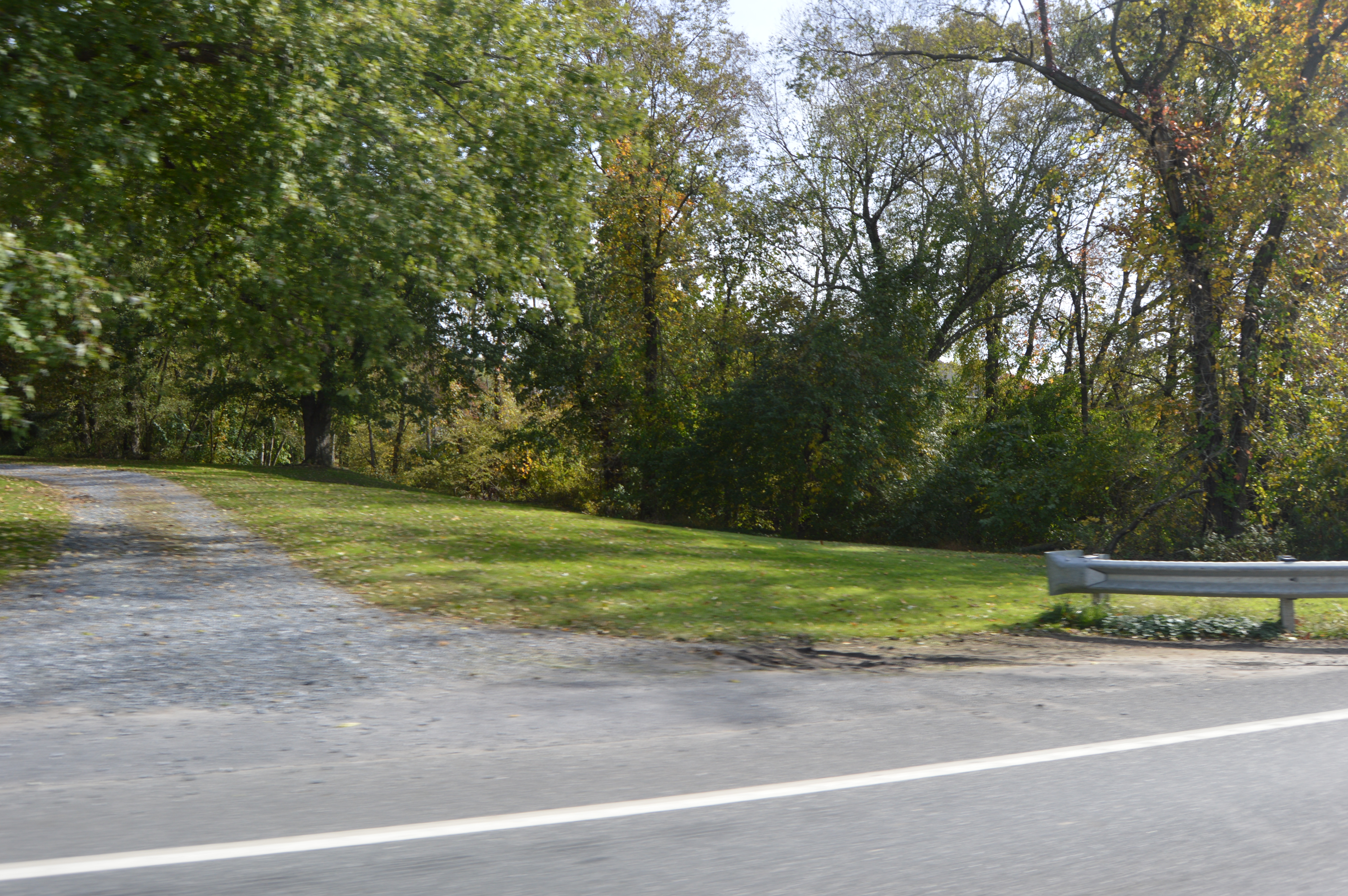 Overview of the southern section of the Frey-Haverstick Site, seen looking east from Water Street (Route 441 on the northern edge of Washington Boro, Pennsylvania, United States. Once a village of the Conestoga Indians, it is now a significant archaeological site, and it has been listed on the National Register of Historic Places.